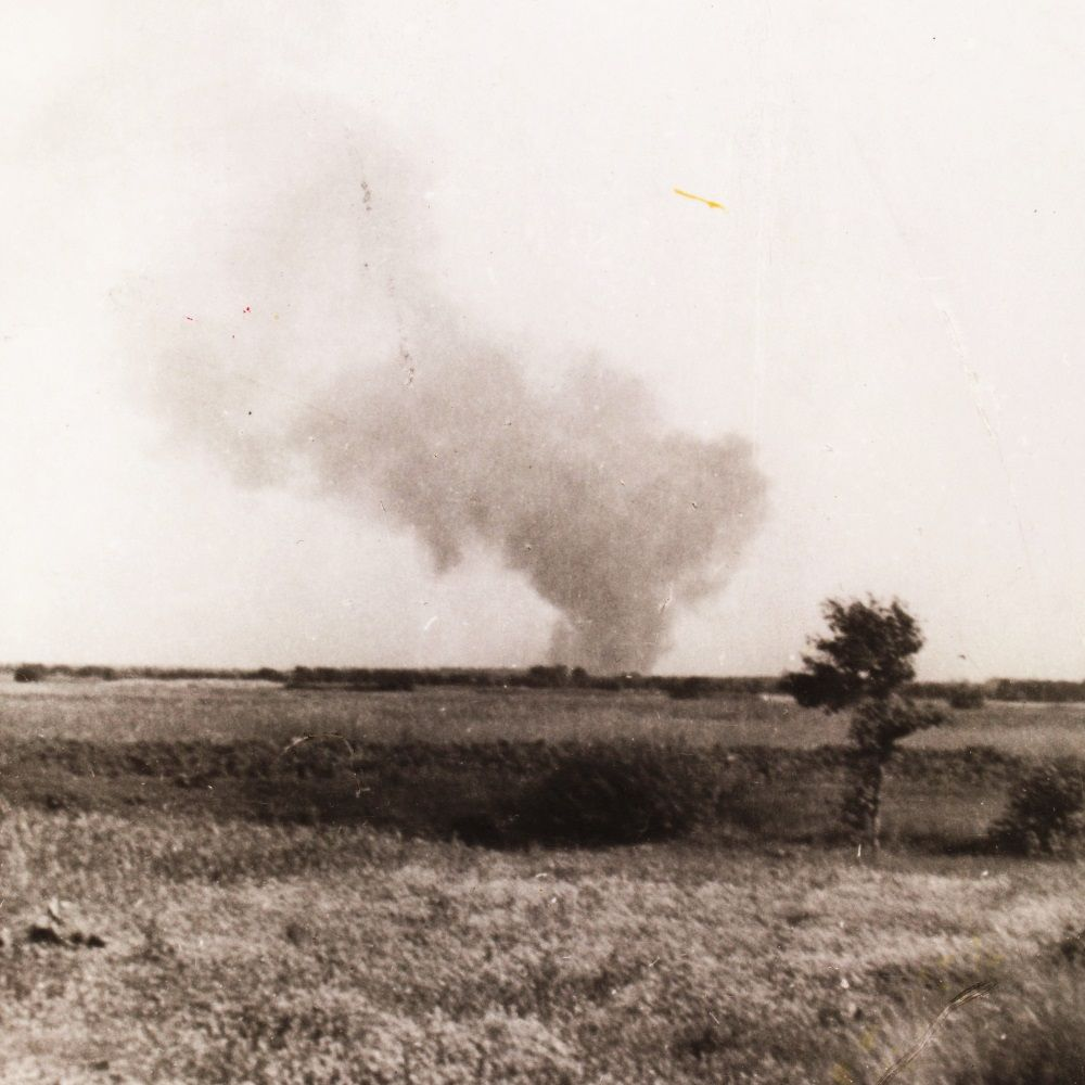 A clandestine photograph of the burning German death camp Treblinka II perimeter taken by Franciszek Ząbecki, eye witness to every Holocaust transport that came into the camp. The Treblinka uprising was launched on 2 August 1943 at 3:45 p.m. During the uprising prisoner barracks were set ablaze, including a tank of petrol which exploded spreading flames on the surrounding structures. A group of armed Jews attacked the main gate. See also hiqh quality photo